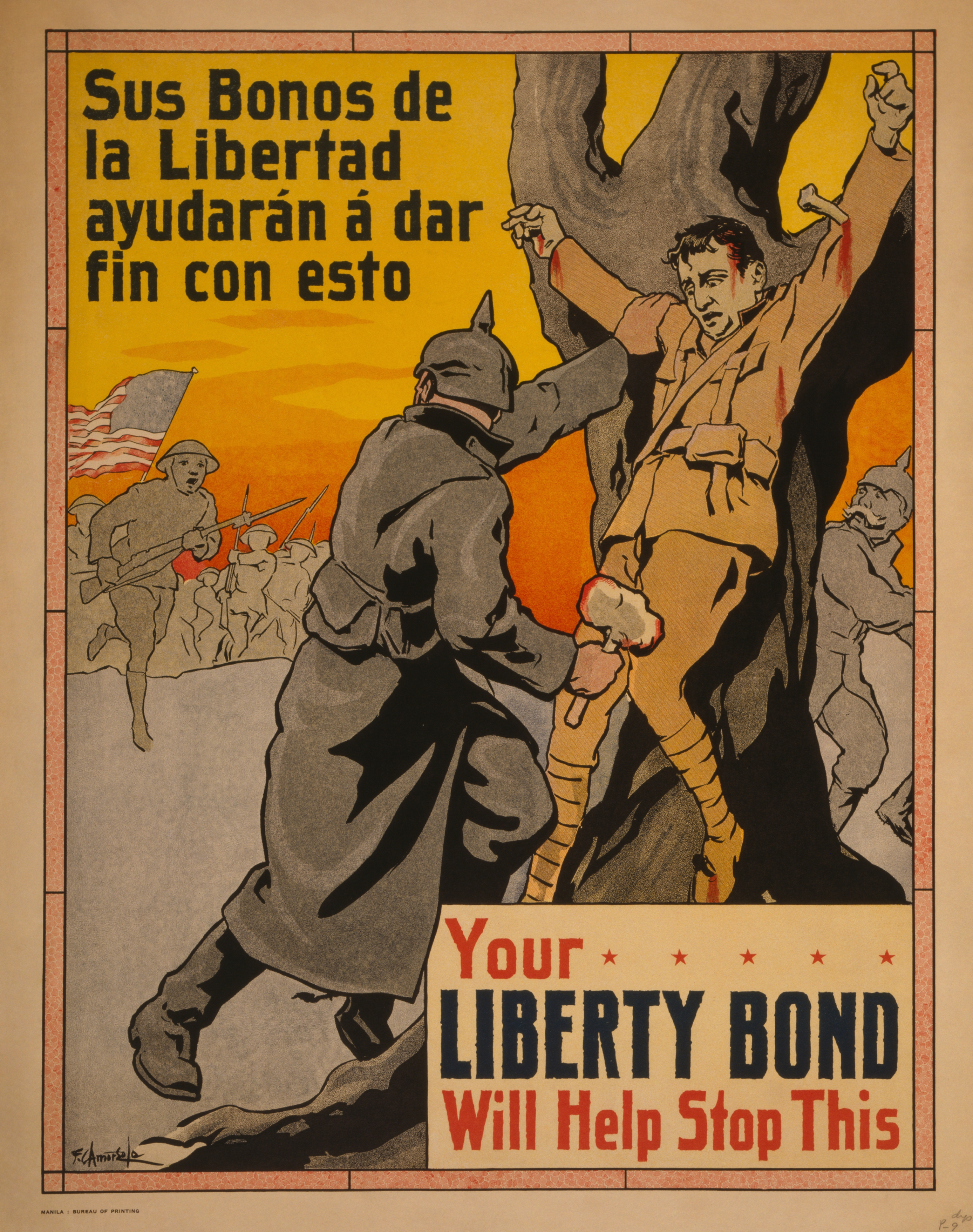 Poster showing German soldiers nailing a man to a tree, as American soldiers come to his rescue. "Your Liberty Bond will help stop this - Sus bonos de la libertad ayudarán á dar fin con esto". Published in Manila by Bureau of Printing. Poster measures 72 by 56 centimetres (28 in × 22 in).